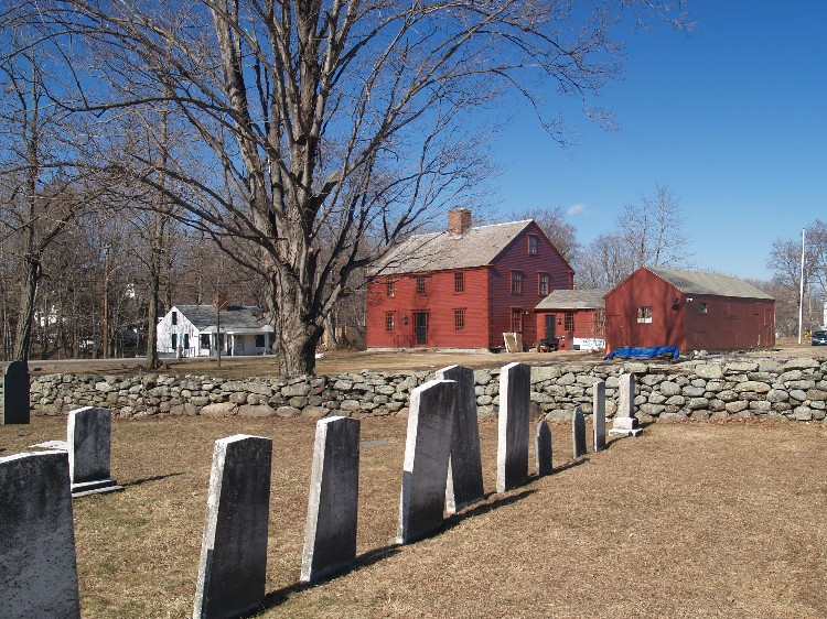 West Boylston Historical Society, (formerly Bigelow Tavern), West Boylston, Massachusetts